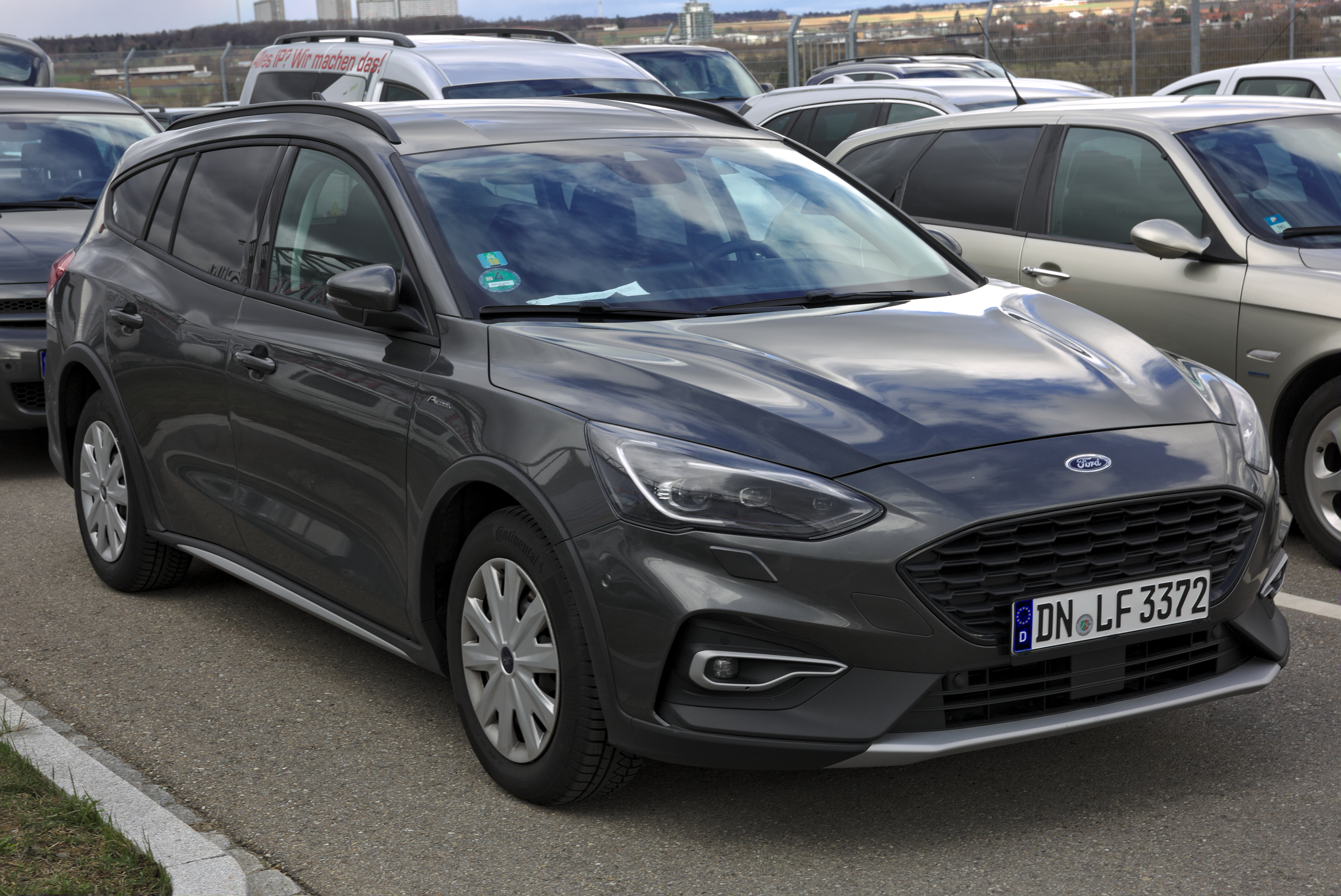 Ford Focus Turnier Active at Retro Classics 2019